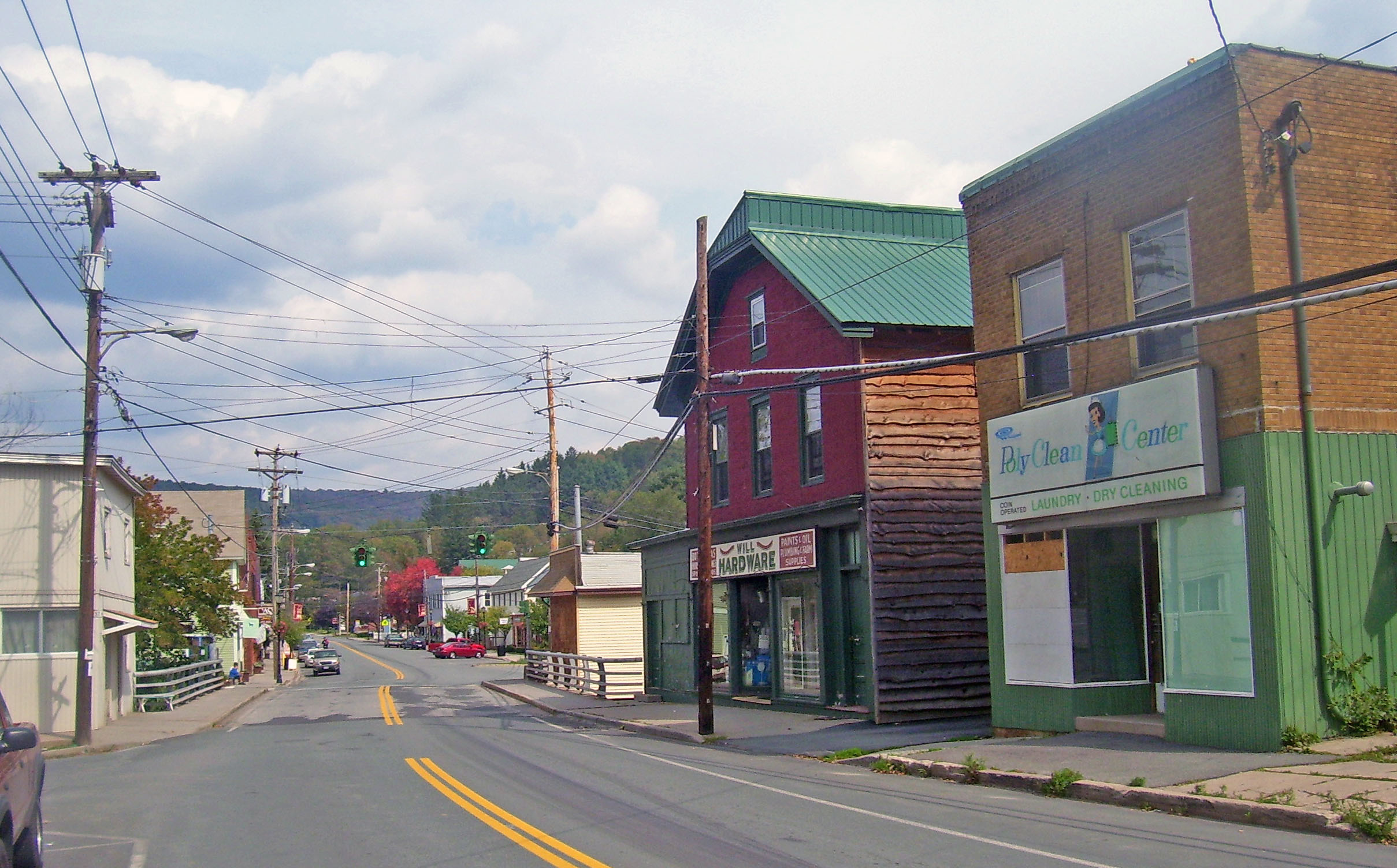 Downtown Livingston Manor, NY, USA